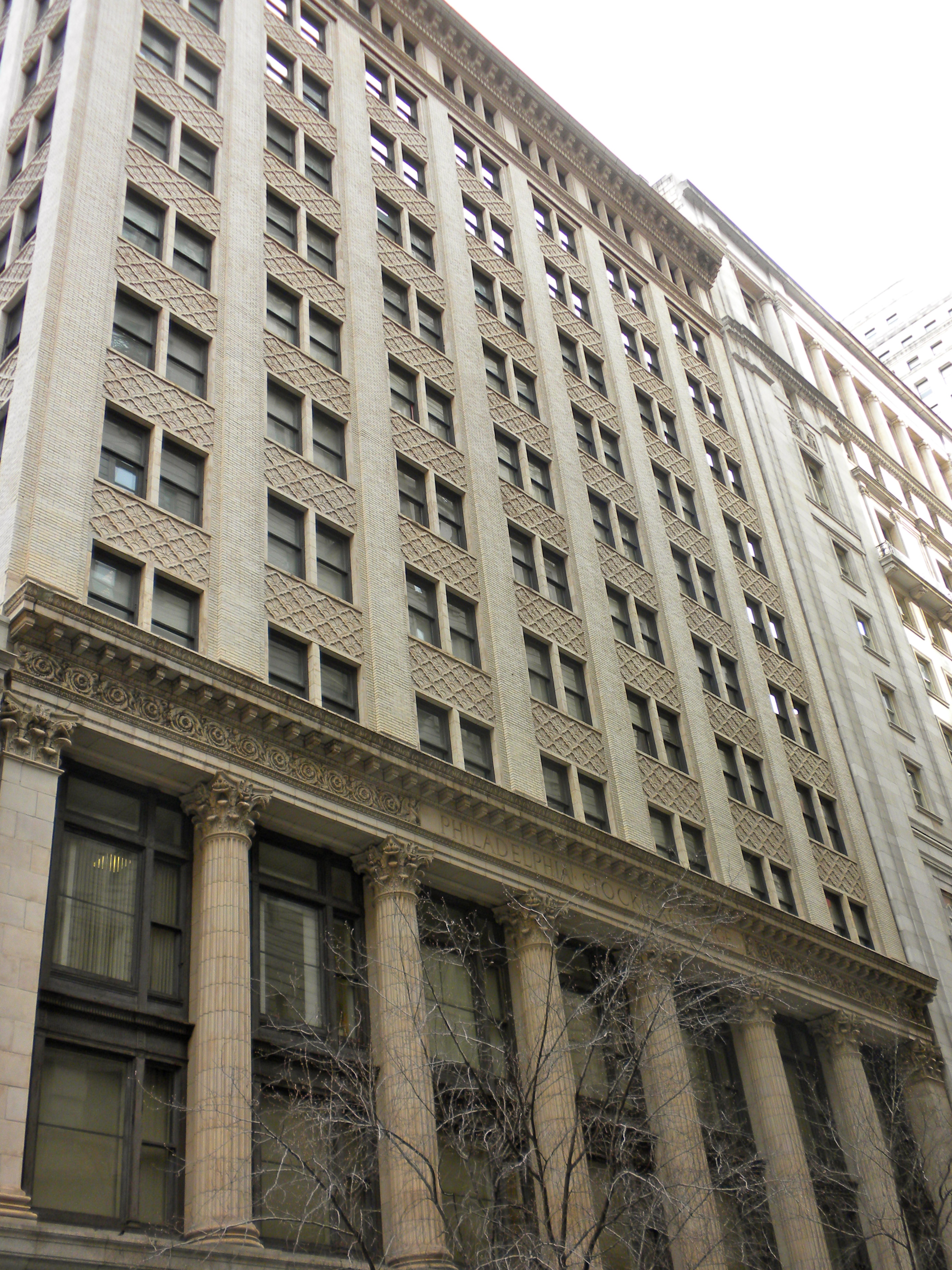 Old Philadelphia Stock Exchange building (now the exchange is closed or part of NASDAQ) On NRHP since August 31, 1982. At 1409–1411 Walnut Street in the Rittenhouse Square East neighborhood of Center City. Horace Trumbauer, architect.